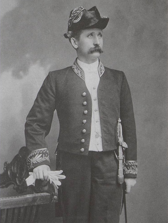 Olav Eduard Pauss, Swedish and Norwegian consul-general in Sydney from 1902, ship-owner and shipping agent in Sydney